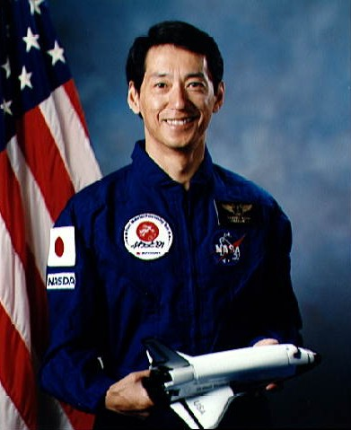 Official portrait of Mamoru Mohri, STS-47 Endeavour, Orbiter Vehicle (OV) 105, NASDA Spacelab J (SLJ), First Materials Processing Test, payload specialist.